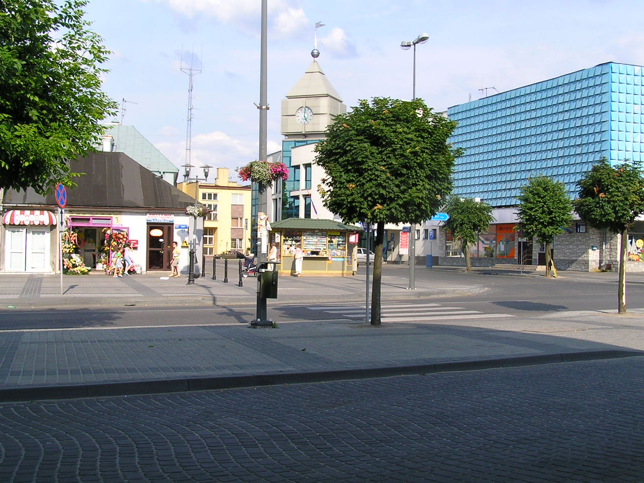 autor: Yarek shalom 13:58, 23 October 2006 (UTC)yarek shalom